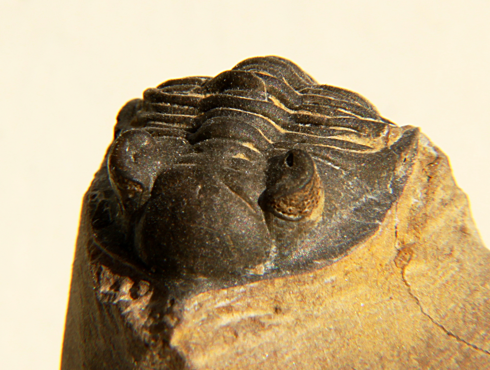 A Minicryphaeus minimus, 25mm long, frontal view of the cephalon, order Phacopida, family Acastidae, collected in Morocco, from the Devonian